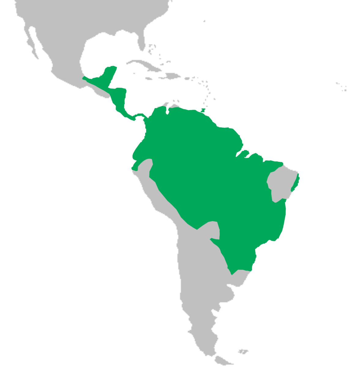 Geographic Distribution of Howler monkeys (Alouatta genus).